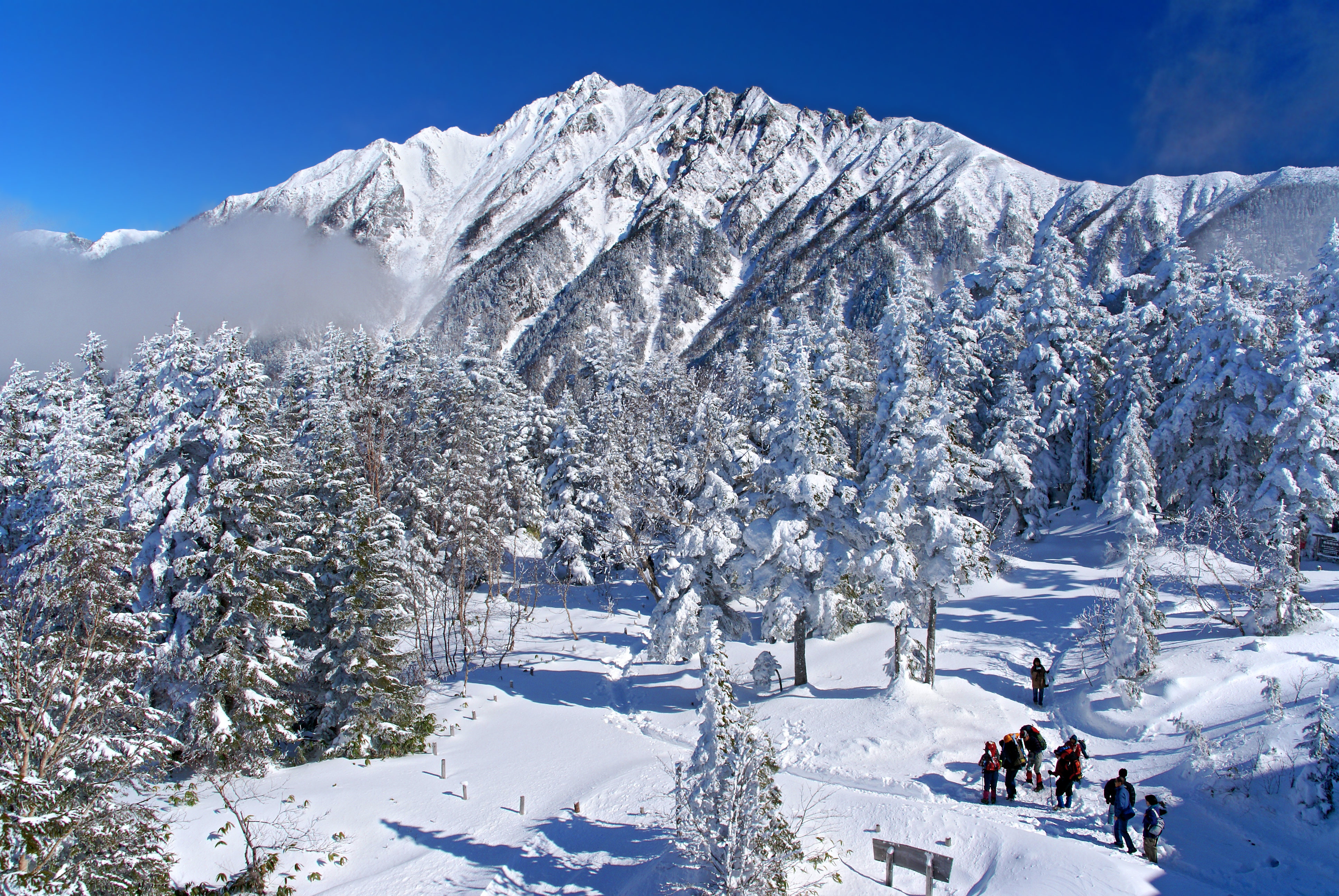 Mount Nishihotaka (2909m) view from Nishihotaka-guchi Station (2156m) of Shinhotaka Ropeway in Takayama Gifu prefecture, Japan.